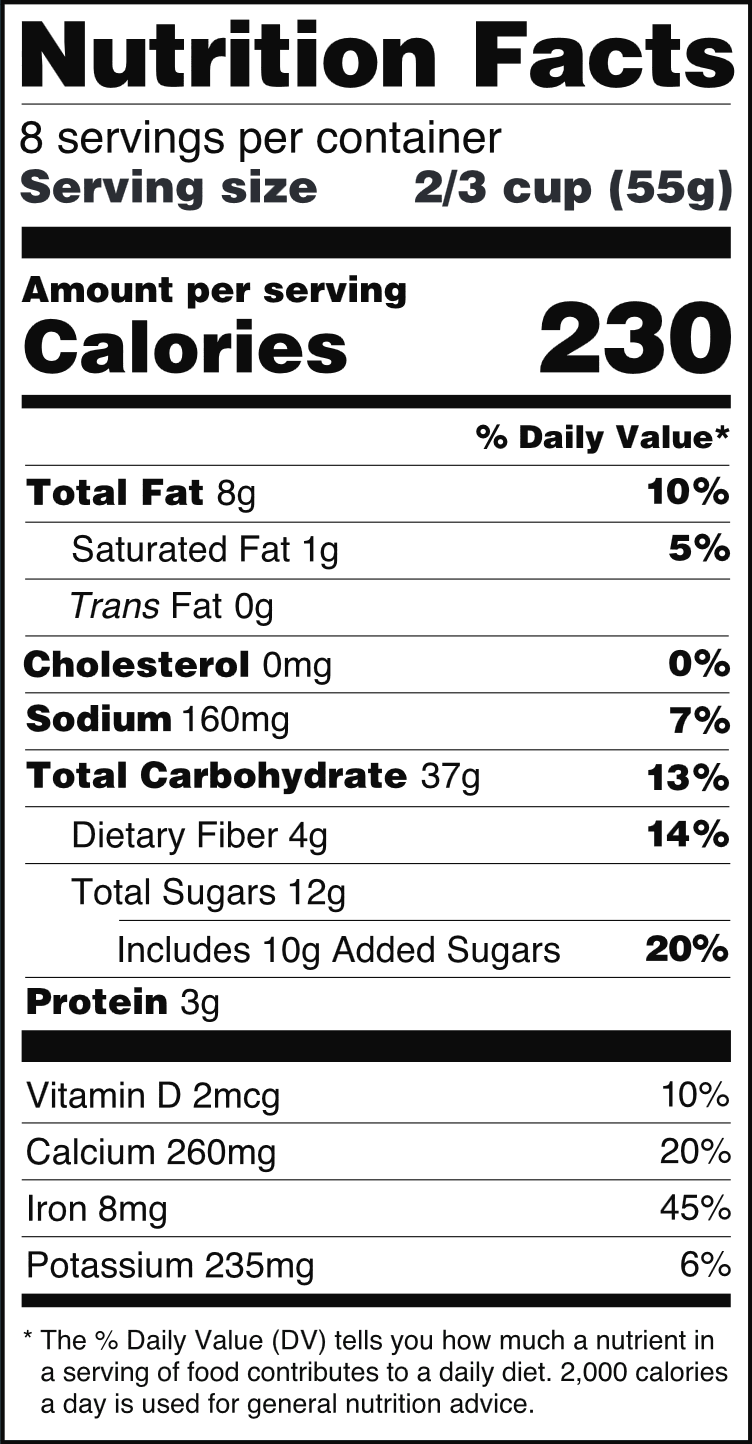 On May 20, 2016, the FDA announced the new Nutrition Facts label for packaged foods to reflect new scientific information, including the link between diet and chronic diseases such as obesity and heart disease. The new label will make it easier for consumers to make better informed food choices. FDA published the final rules in the Federal Register on May 27, 2016.